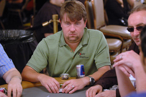 Chris Moneymaker in 2006 World Series of Poker - Rio Las Vegas.